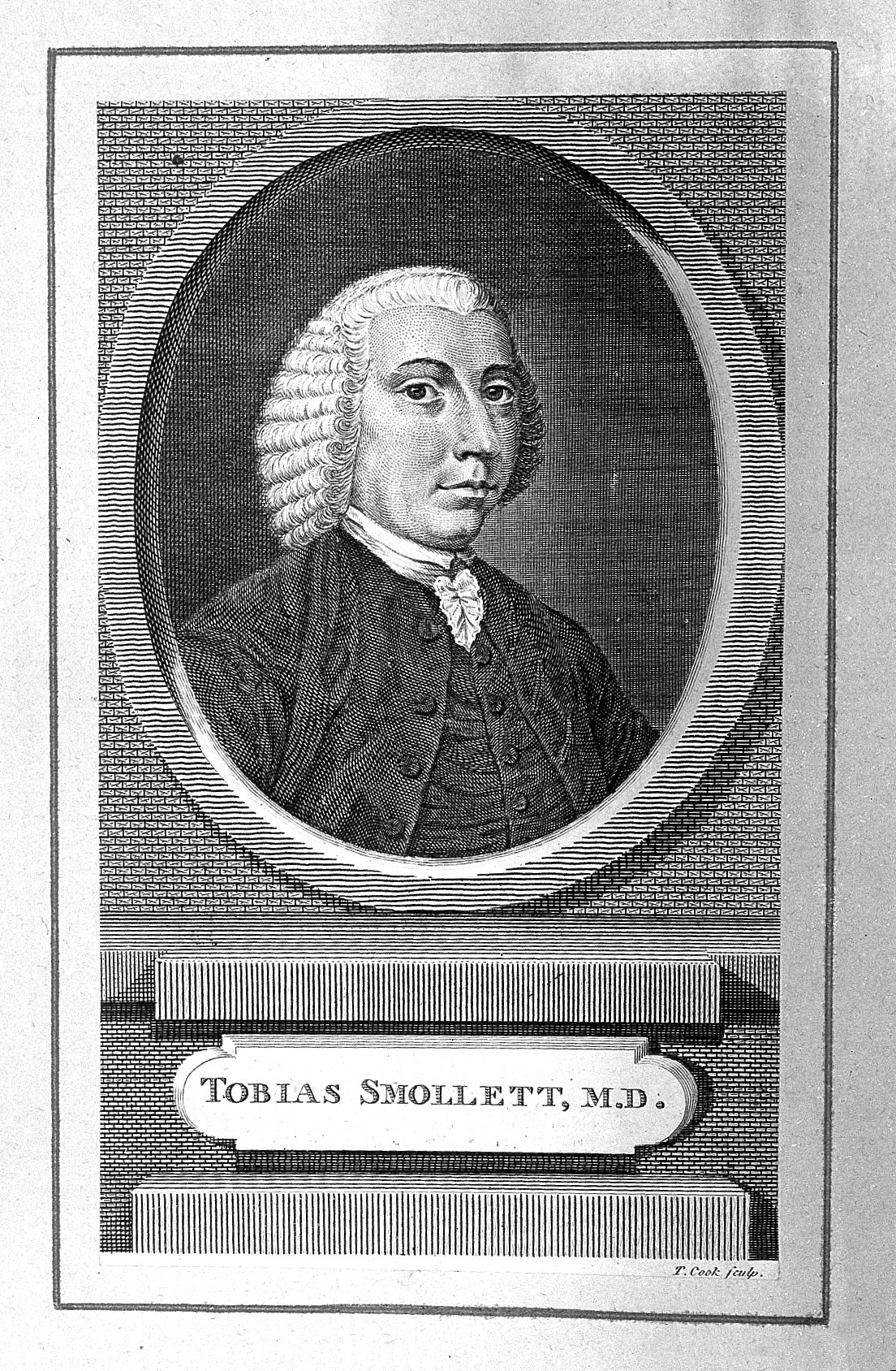 Tobias Smollett, M.D. Rare Books Keywords: Smollett, Tobias George; Cook